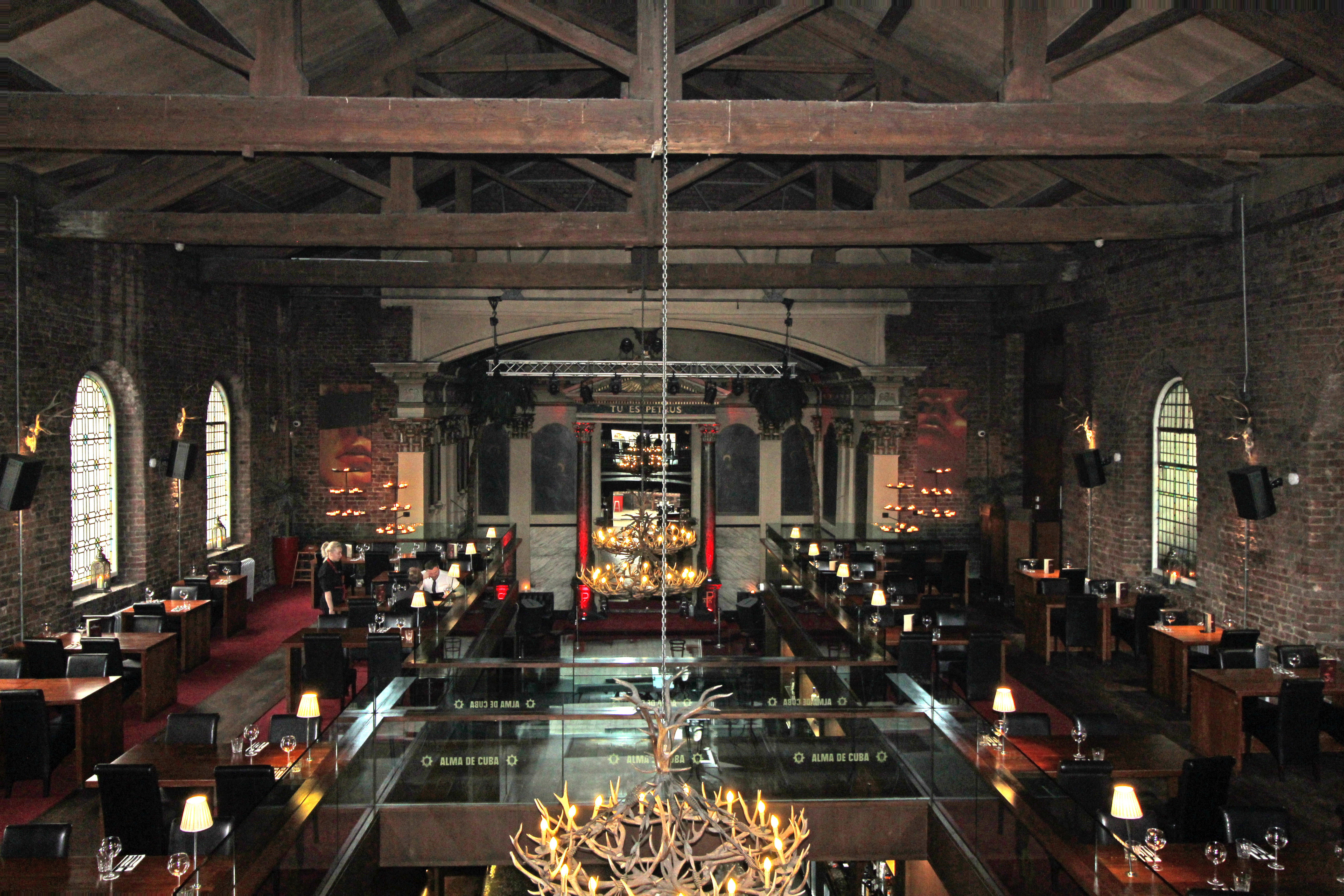 View southeast along the first floor restaurant area of Alma de Cuba, the Grade II listed former St Peter's RC church, Seel Street, Liverpool.